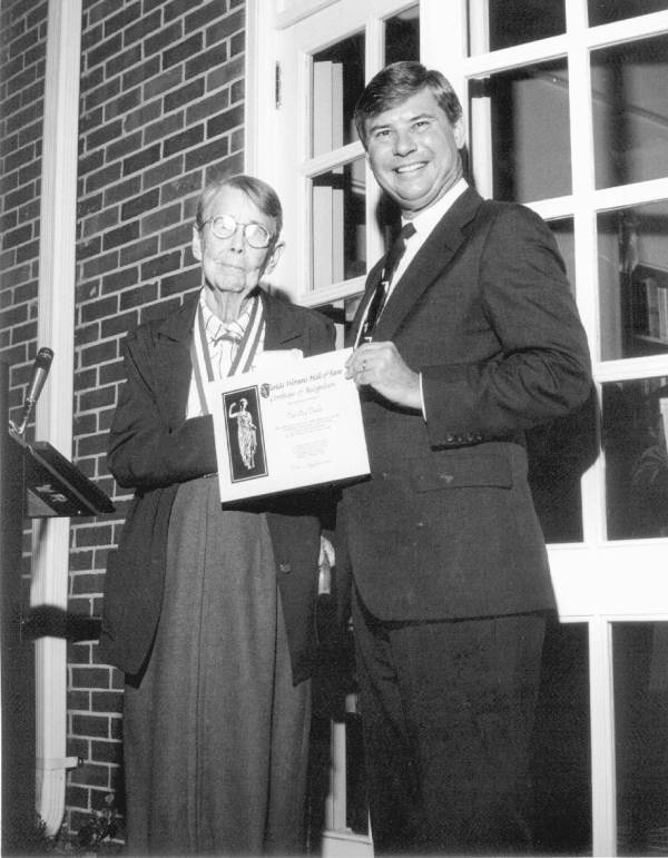 Local call number: PR11681 Title: Governor Bob Graham presenting certificate to Dorothy Dodd Date: ca. 1980 General note: Dodd became Florida's first State Archivist while working at the Florida State Library in Tallahassee. Later, she became State Librarian. Much of the Florida State Archives' collections were first gathered and preserved through Dodd's efforts. Series Title: Physical descrip: 1 photograph - b&w - 8 x 10 in. Repository: 500 S. Bronough St., Tallahassee, FL 32399-0250 USA. Contact: 850.245.6700. Persistent URL: Visit Florida Memory to find resources for and to learn more about the